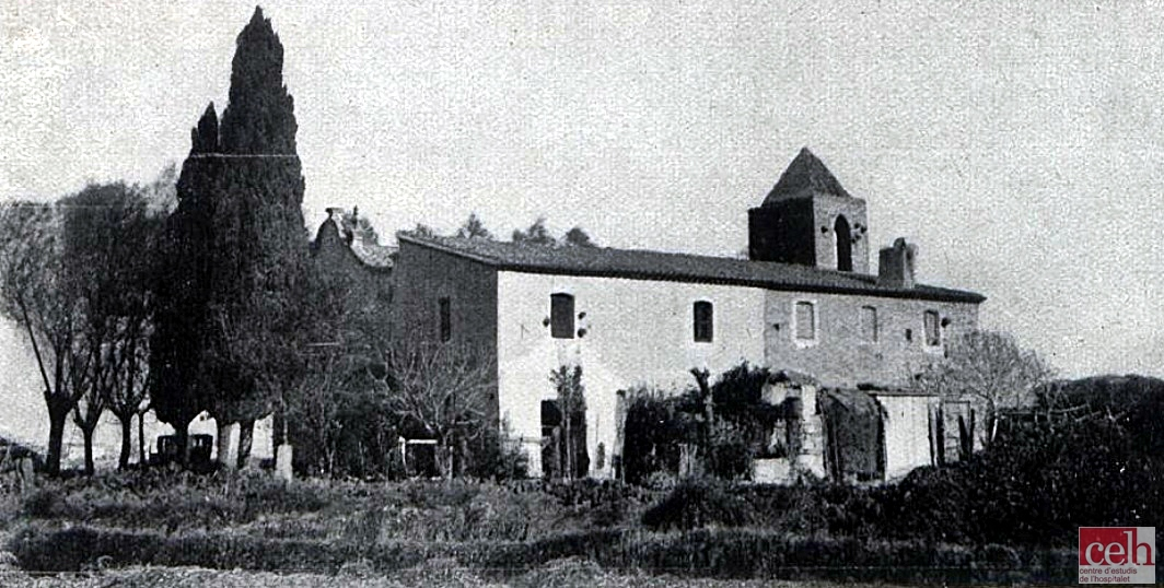 Bellvitge 1926